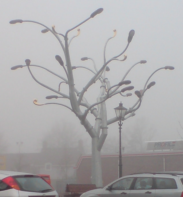 Picture of statue (light-tree) in Nieuwleusen. Title of the statue: "Noli Me Tangere", artist: Luk van Soom from Belgium